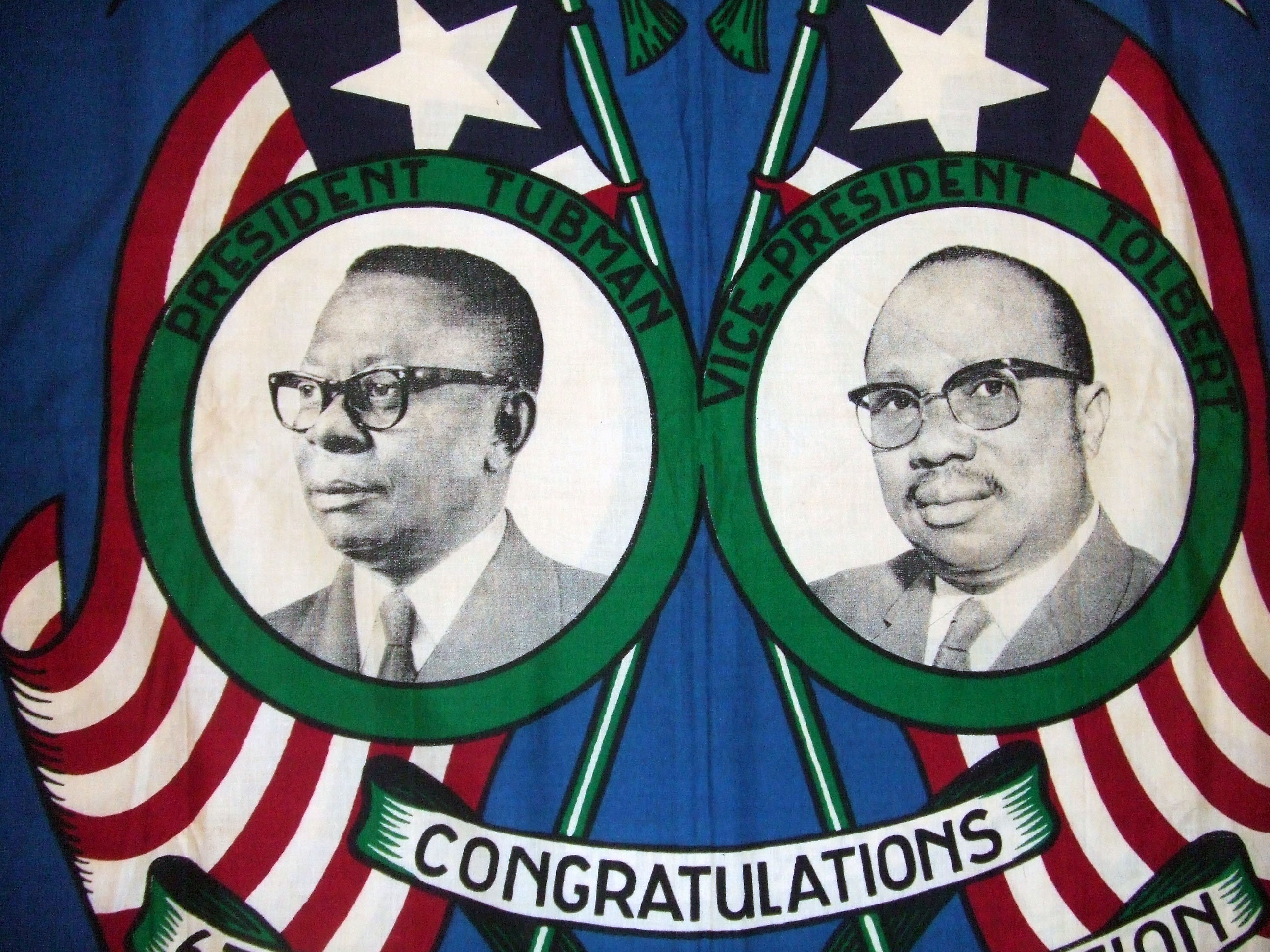 Commemorative wraps (Pagnes) printed on wax fabric in the 1960s. Liberian